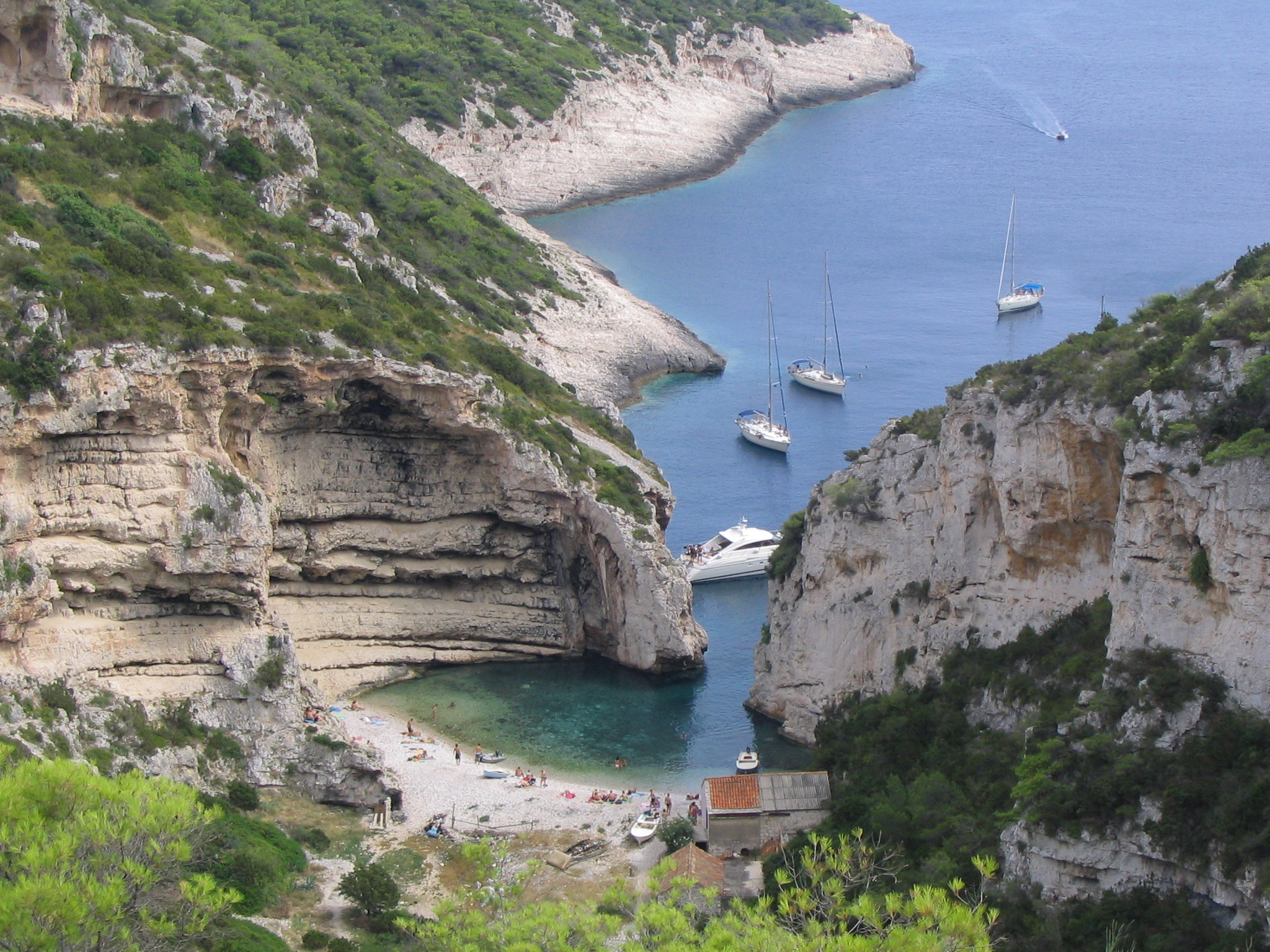 Stiniva beach, island of Vis, Croatia